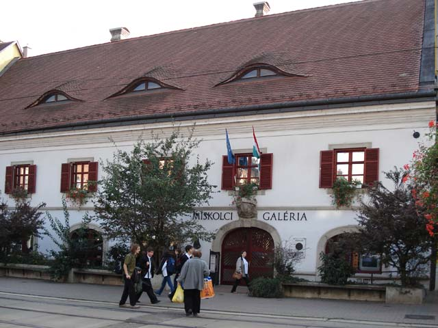 Dőry mansion, Gallery of Miskolc, Hungary